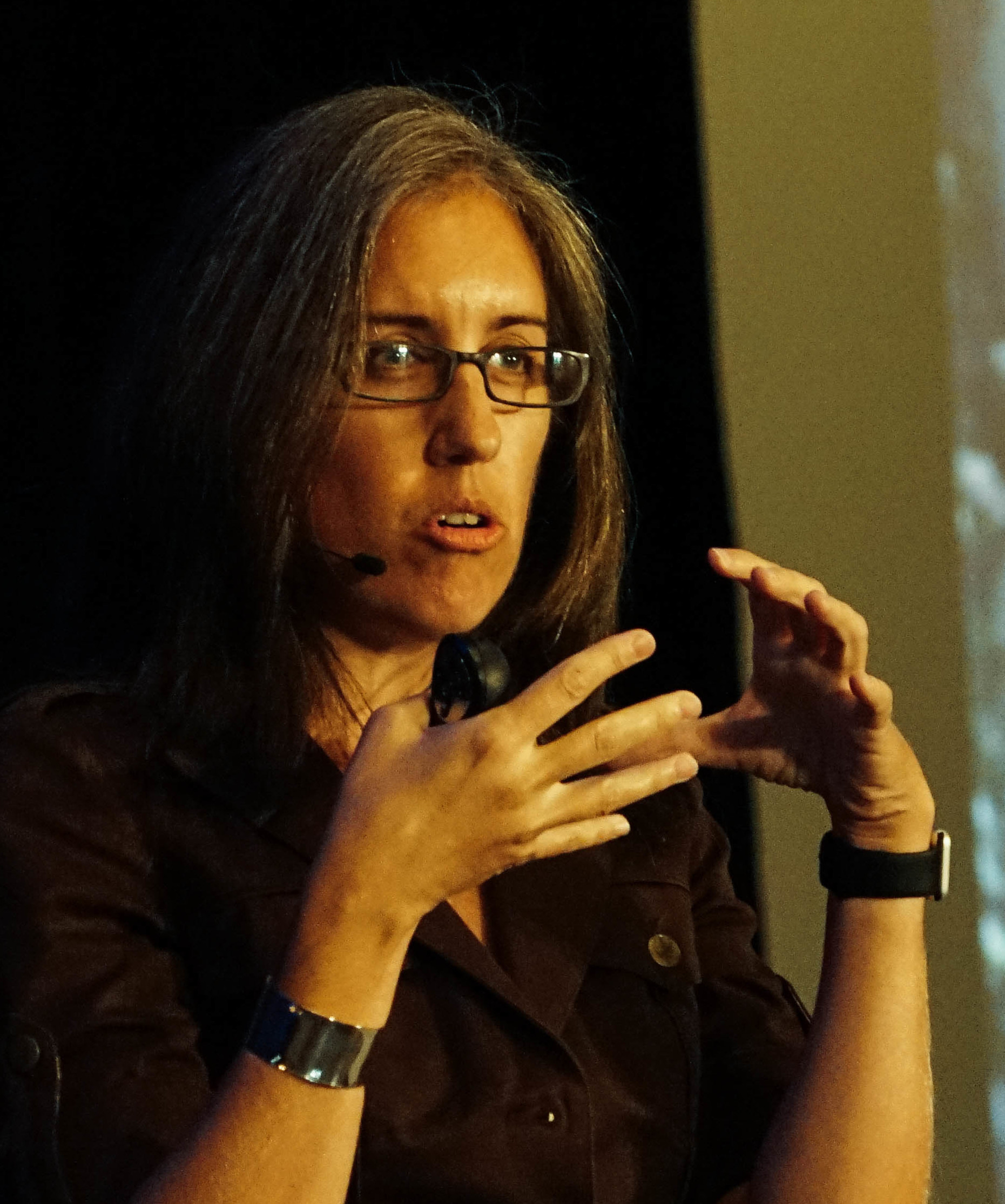 Jen Simmons presents "Modern Layouts: Getting Out Of Our Ruts" at An Event Apart, Chicago, IL, on August 31, 2015.